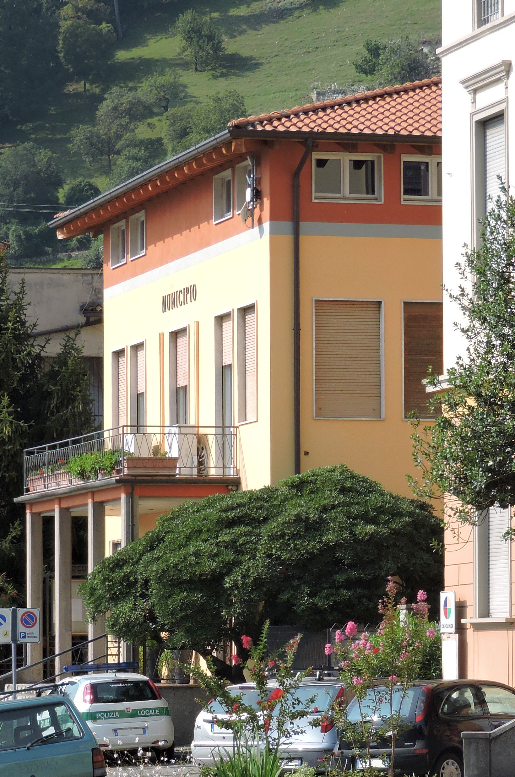 Tavernola Bergamasca (BG, Italy): town hall